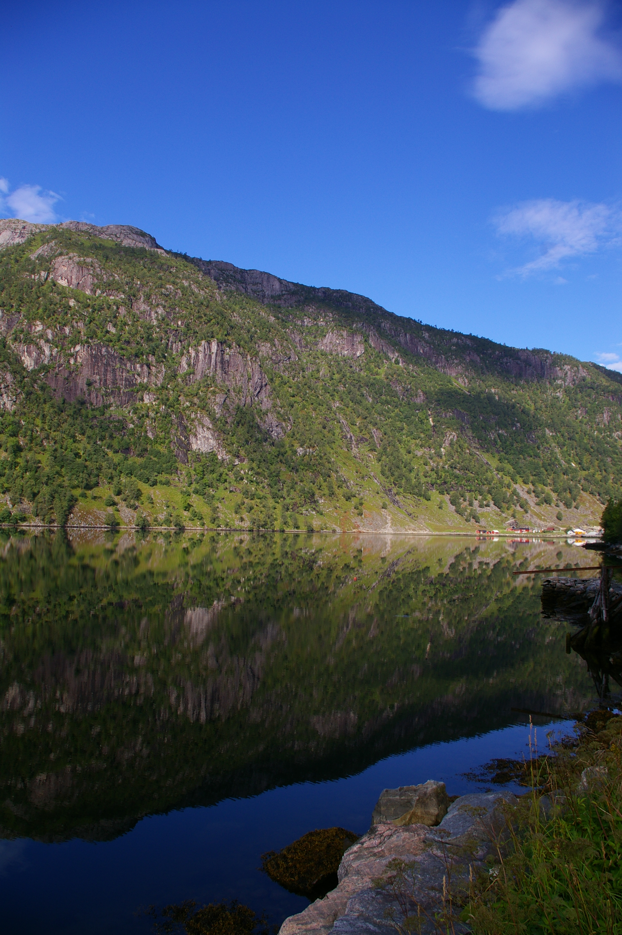 Romarheimsfjorden between Lindås and Osterøy in Hordaland, Norway.